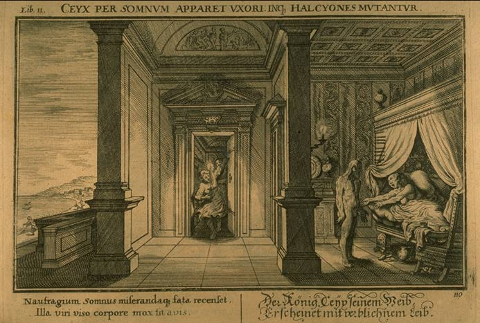 Ceyx/Morpheus appears to Alcyone. Engraving (or etching more likely)by Bauer for Ovid's Metamorphoses Book XI, 633-676.